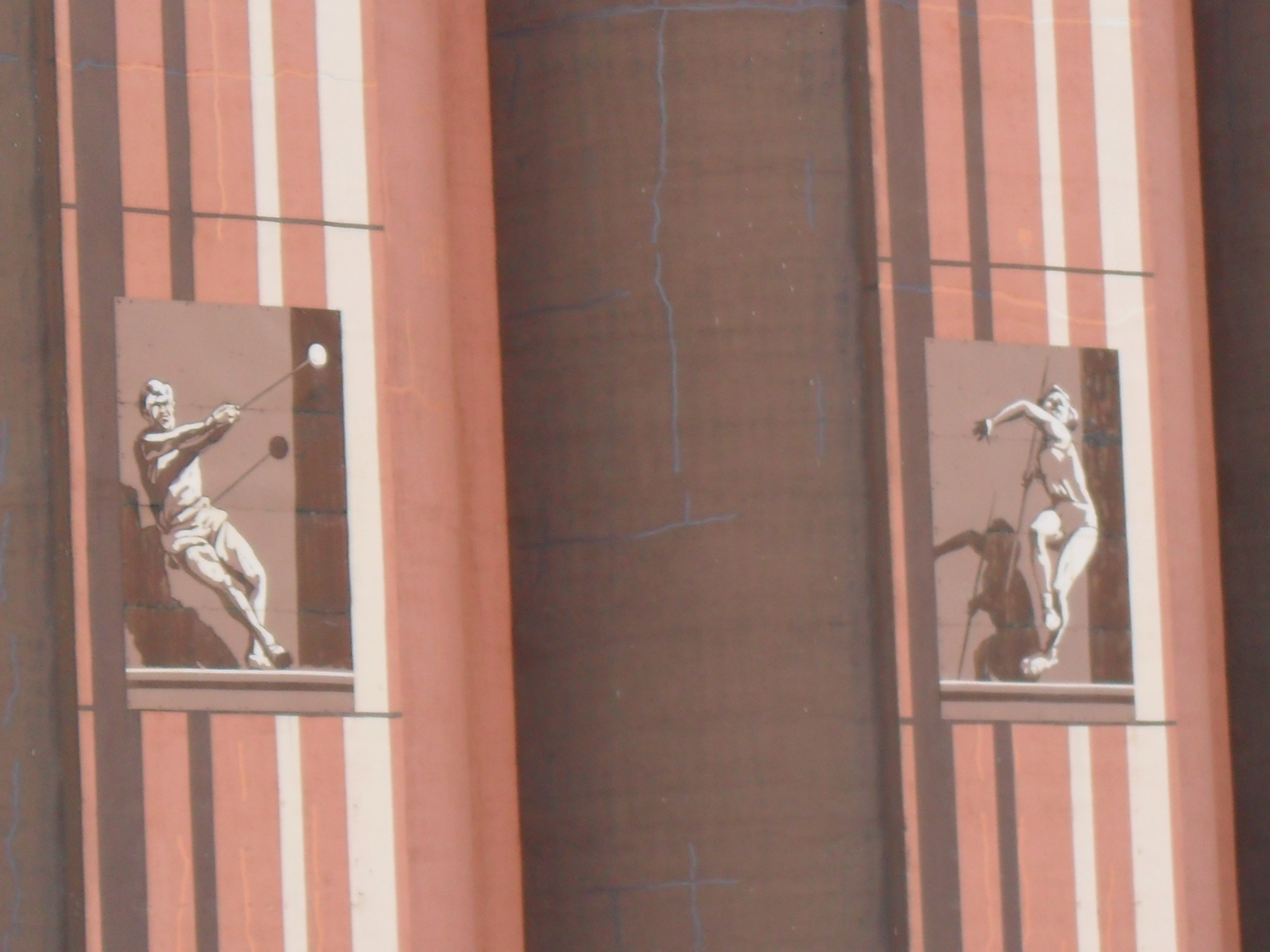 Athletic sports figures, public artwork, Glebe Island, Sydney NSW